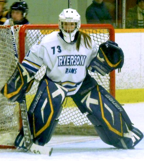 Photo taken by Devan Mighton of CIS women's hockey 2013-14.